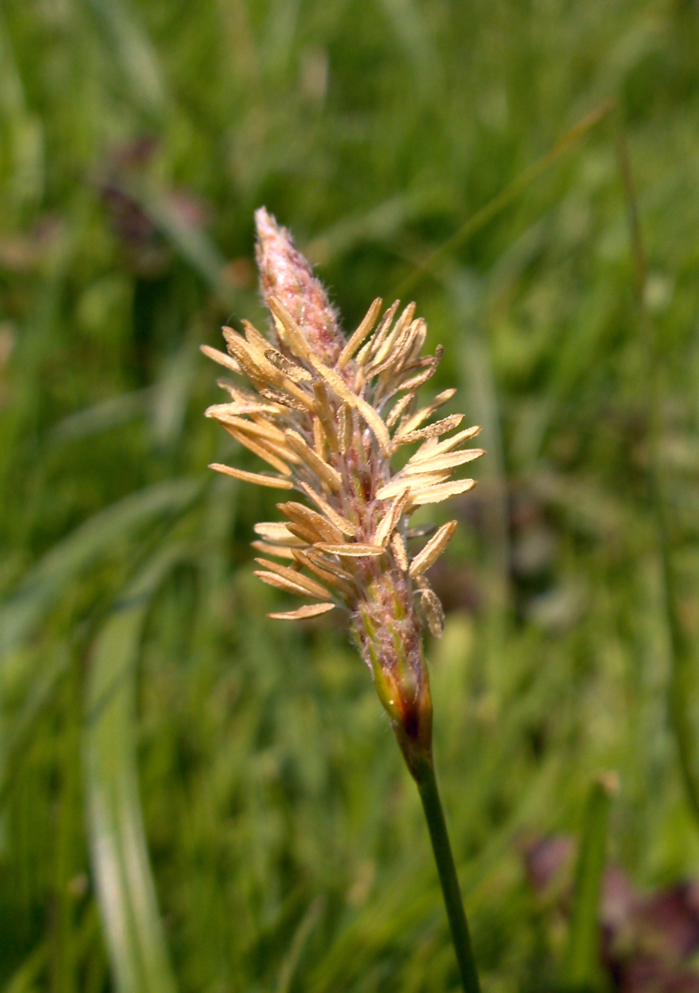 Male inflorescence of Carex hirta, with conspicuous stamens